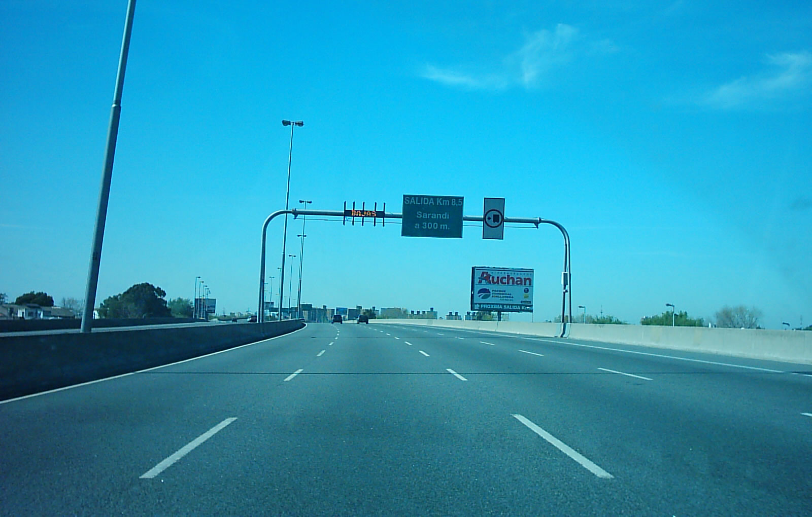 National Route 1 (Argentina) which links the cities of Buenos Aires and La Plata. At the center, Quilmes city.